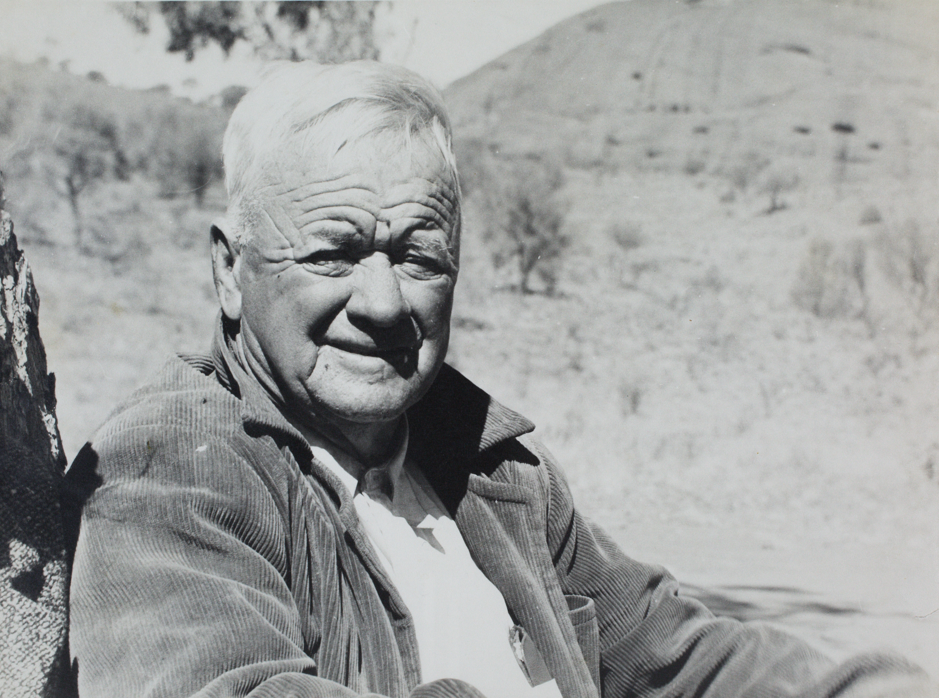 Bill Harney at Uluru in the Northern Territory of Australia. (PH0510/0002)